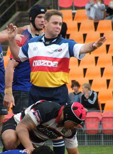 Referee signalling a scrum